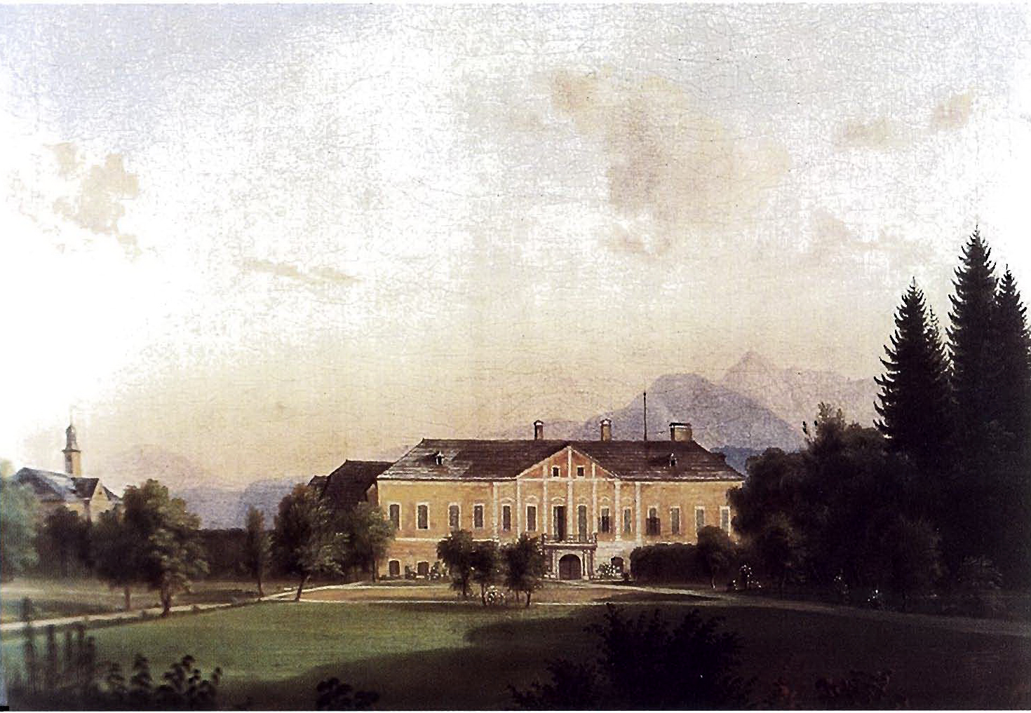 Oil painting of the castle and the palace of Harbach in the Carinthian capital of Klagenfurt / Austria / European Union